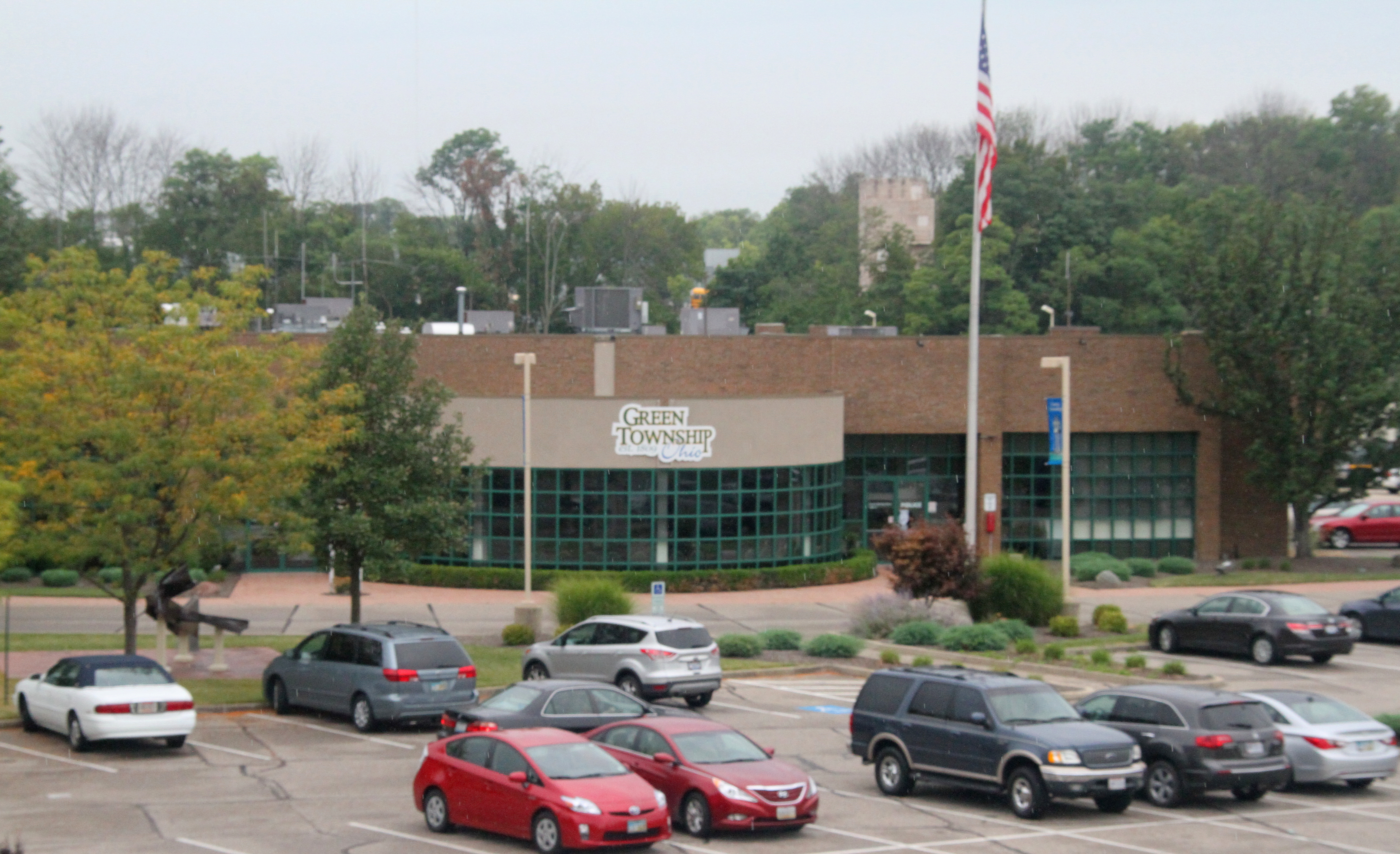 Green Township Municipal Building in Hamilton County Ohio